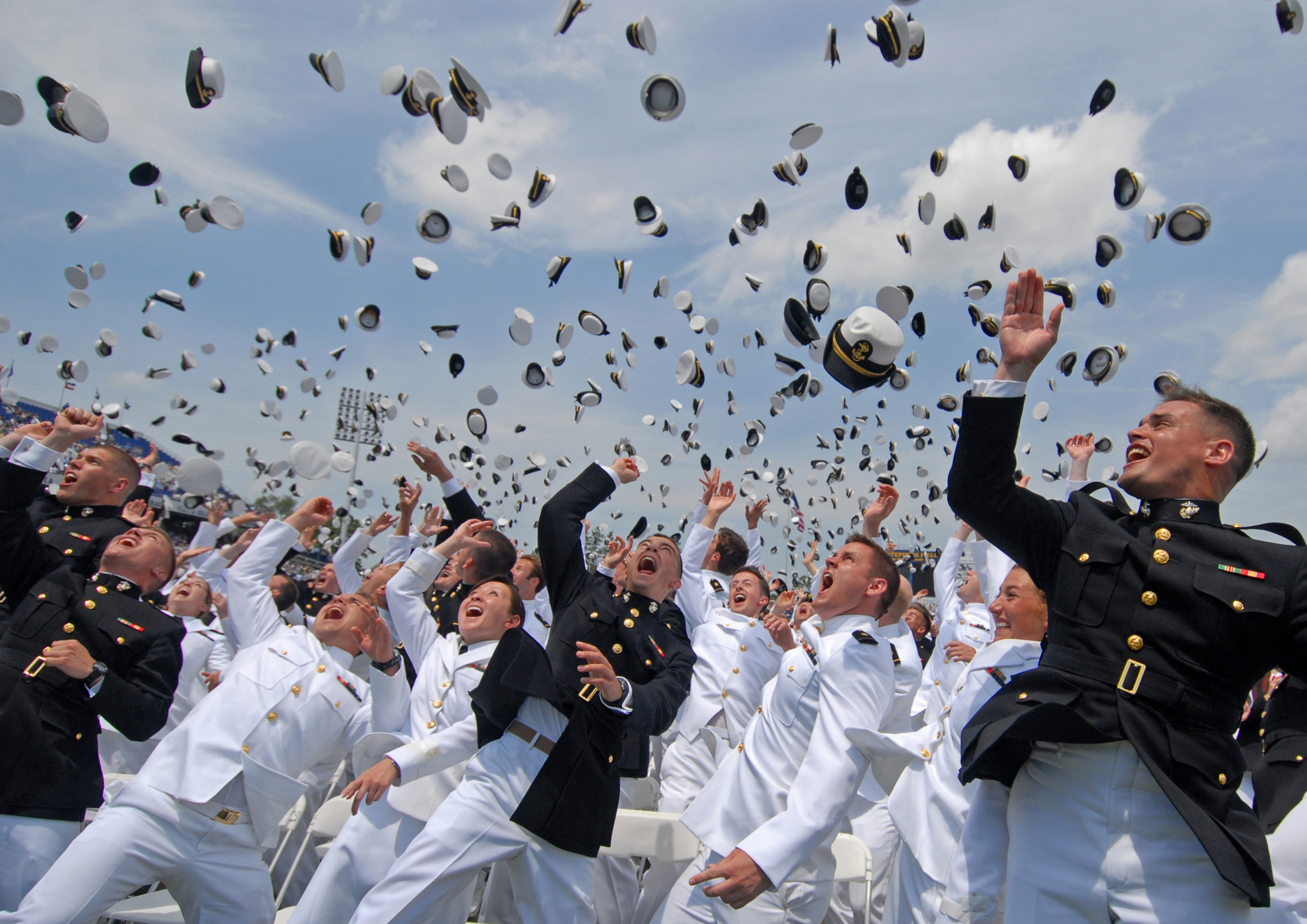 ANNAPOLIS, Md. (May 27, 2011) Newly commissioned Navy and Marine Corps officers toss their hats during the U.S. Naval Academy Class of 2011 graduation and commissioning ceremony. The Class of 2011 graduated 728 ensigns and 260 Marine Corps 2nd lieutenants at Navy-Marine Corps Memorial Stadium in Annapolis, Md. (U.S. Navy photo by Mass Communication Specialist 1st Class Chad Runge/Released)